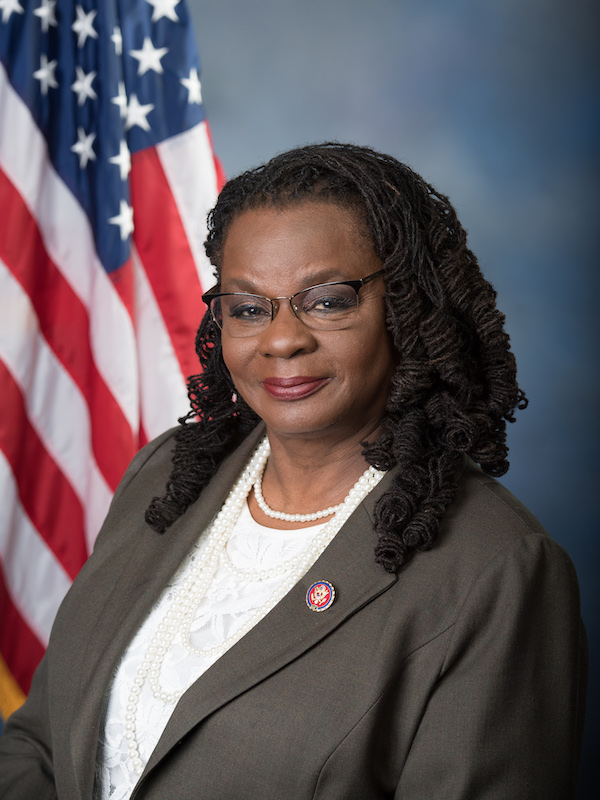 Gwen Moore, 116th Congress member portrait